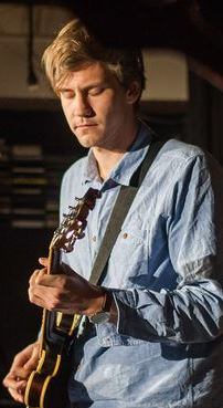 Torgeir Standal Live in Ålesund.